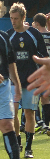 Rob Hulse. Image cropped from original at flickr.